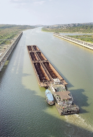 The Danube-Black Sea Canal